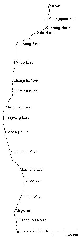 Map of Wuhan-Guangzhou Passenger Line